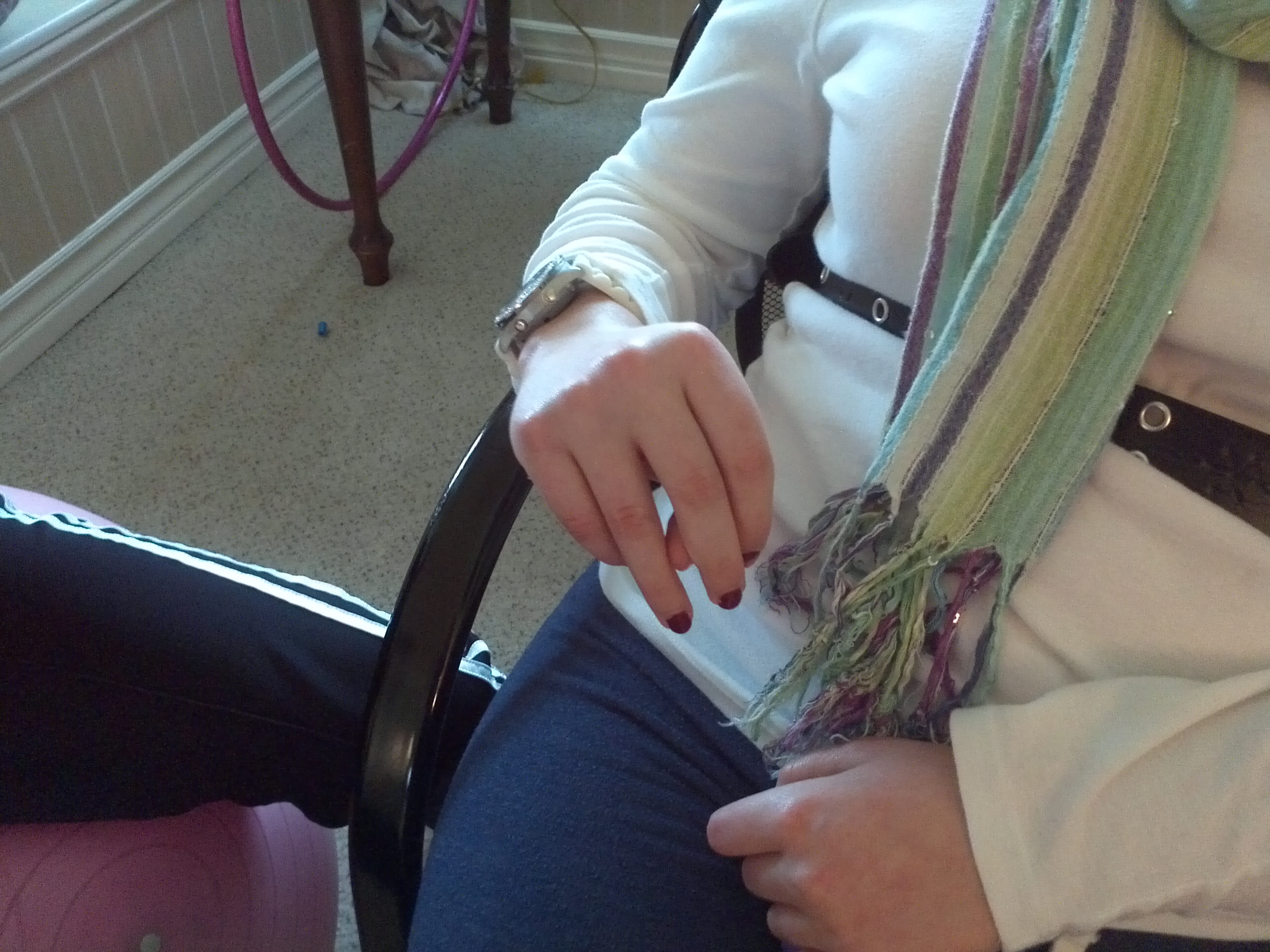 A Patient suffering from Spastic Hemiplegia